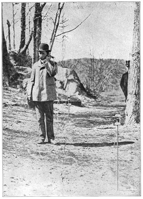 Original Caption: "MR. STUBBLEFIELD RECEIVING MESSAGES BY WIRELESS TELEPHONE. Note the two steel rods in the ground, which establish connection with the electrical currents of the earth, being connected by 30 feet [10 meters] of wire attached to the receiver."